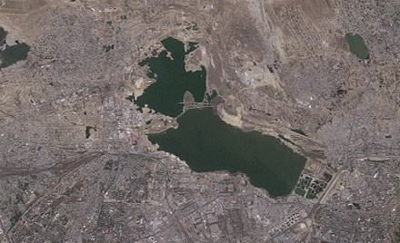 Greater Baku, Azerbaijan, satellite image, LandSat-5, 2010-09-06, near natural colors, resolution 30 m